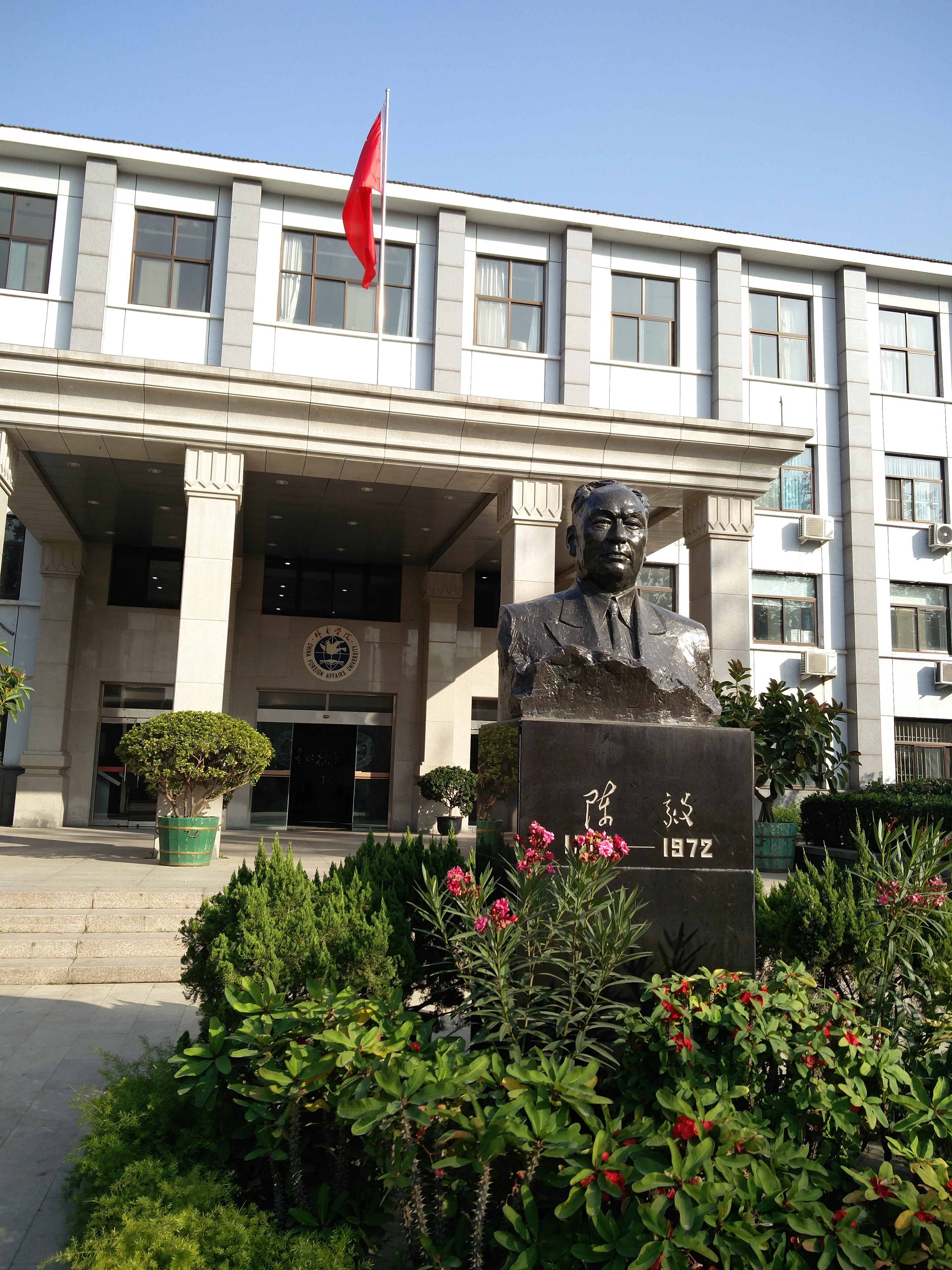 Chen Yi (陈毅) monument in China Foreign Affairs University campus.